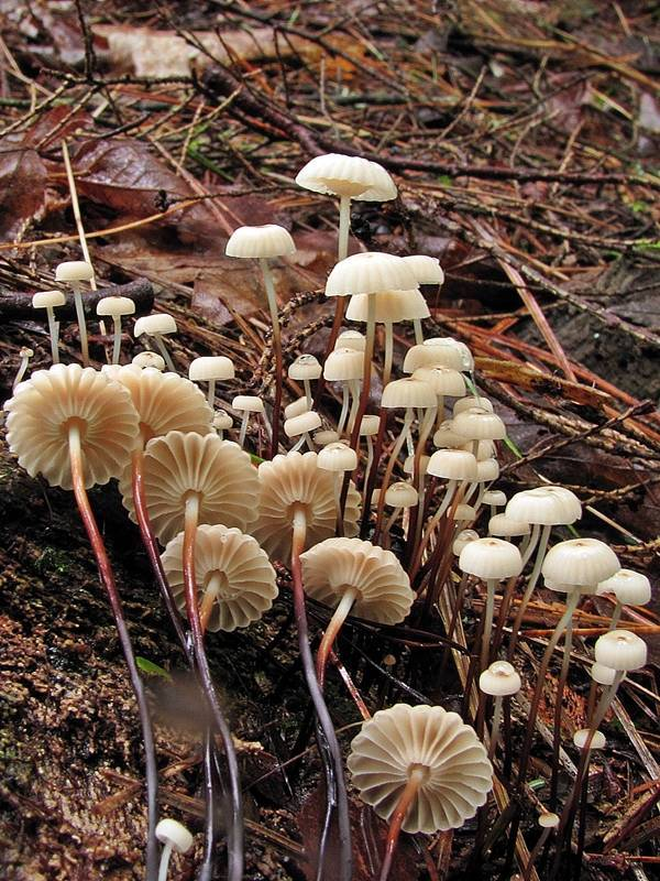 Fruit bodies of the common agaric fungus Marasmius rotula (Scop.) Fr. Photographed in Oneida Co., New York, USA .